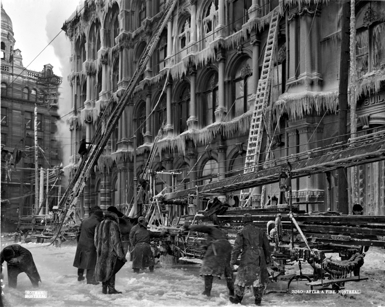 Photograph, After a fire, Thomas May's Building, McGill Street, Montreal, QC, 1901, Wm. Notman & Son, Silver salts on glass - Gelatin dry plate process - 20 x 25 cm